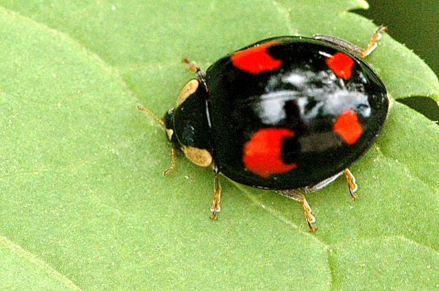 Picture taken in Commanster, Belgian High Ardennes . Species: Harmonia axyridis